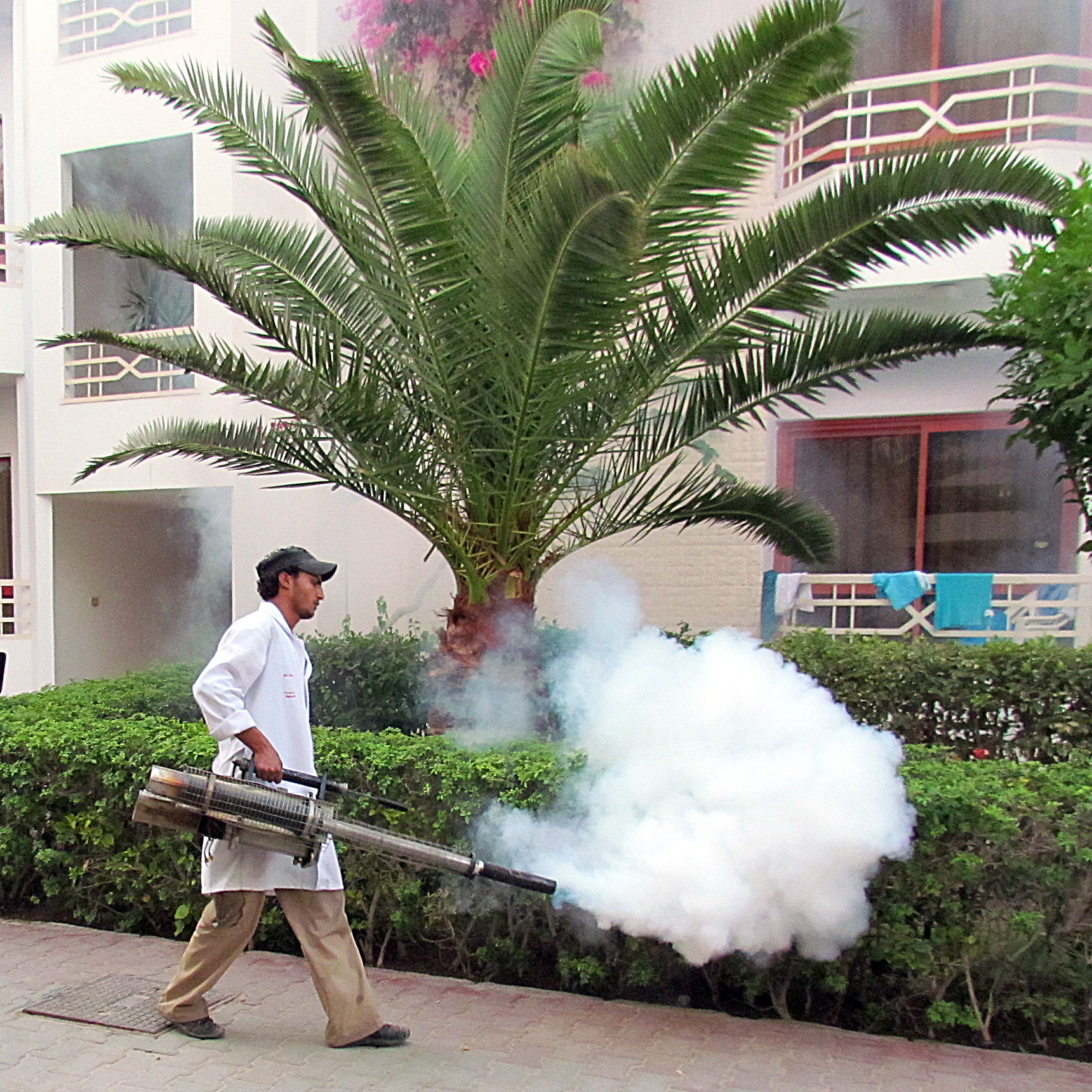 Disinsection with Thermal Fog Generator in Egypt